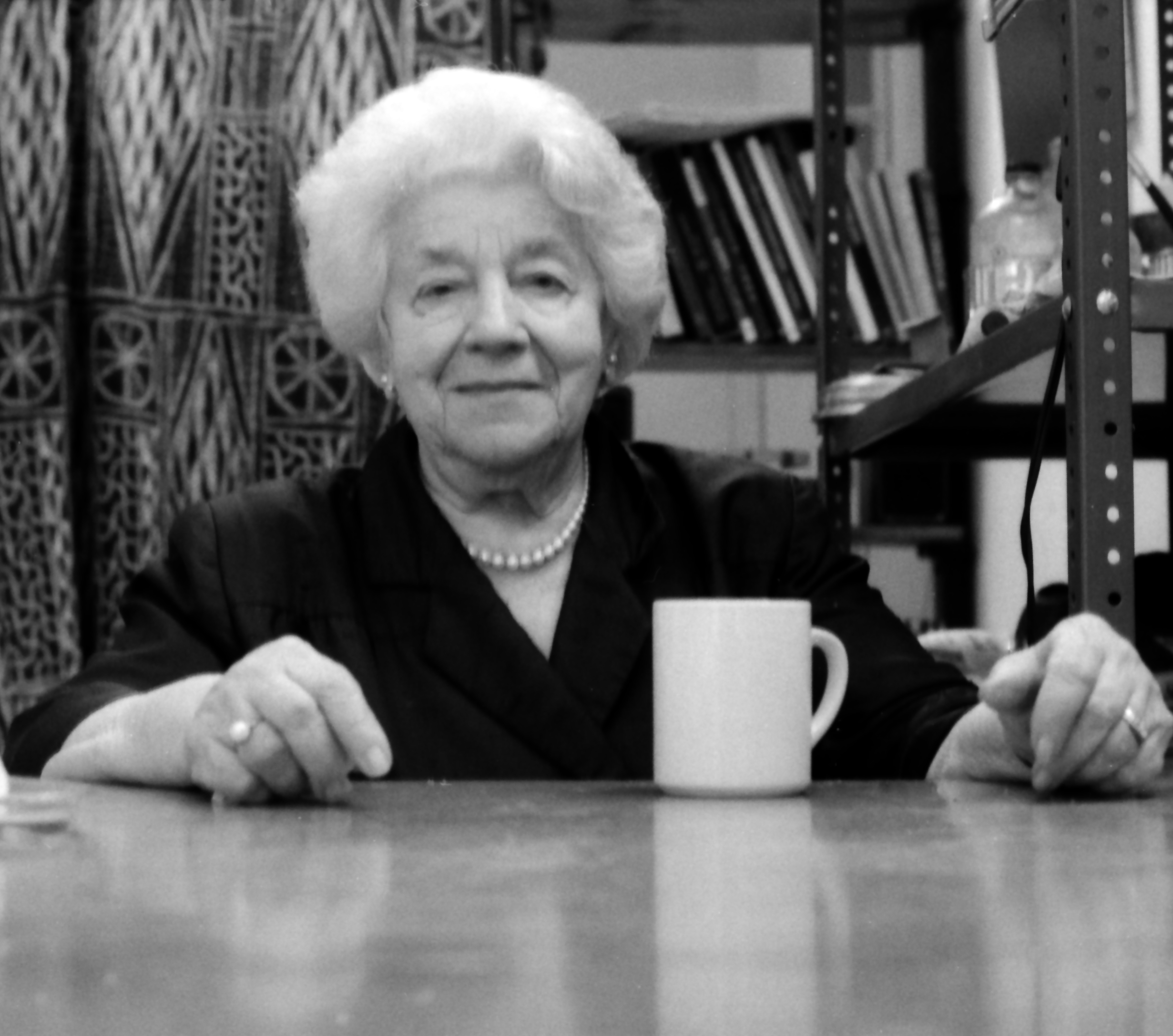 Photograph of Bertha Urdang, 1992 New York City, at the painting studio of Janek Konarski prior to a June exhibition.